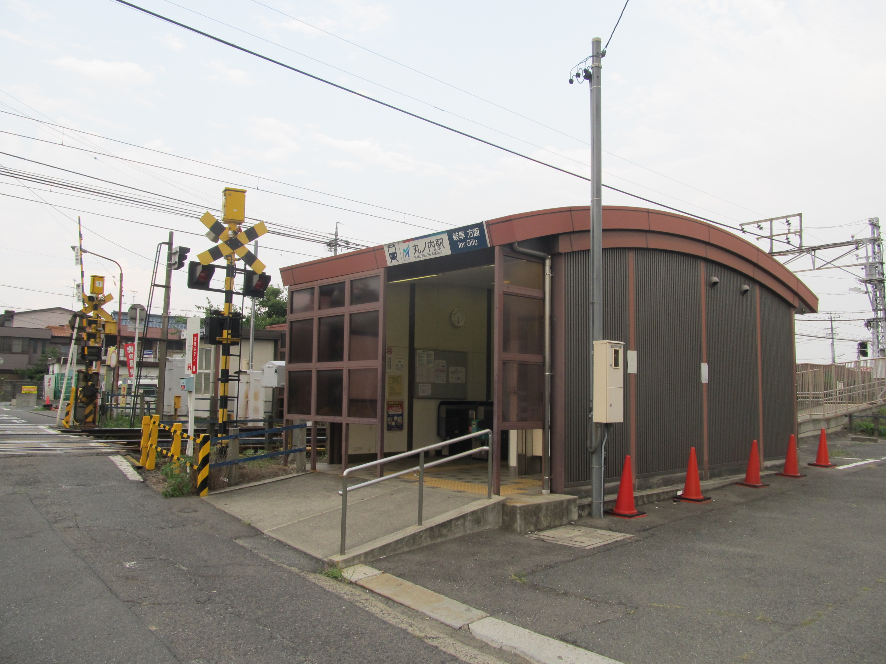 Nagoya Railroad Nagoya Main Line Marunouchi Station Building (for Gifu).